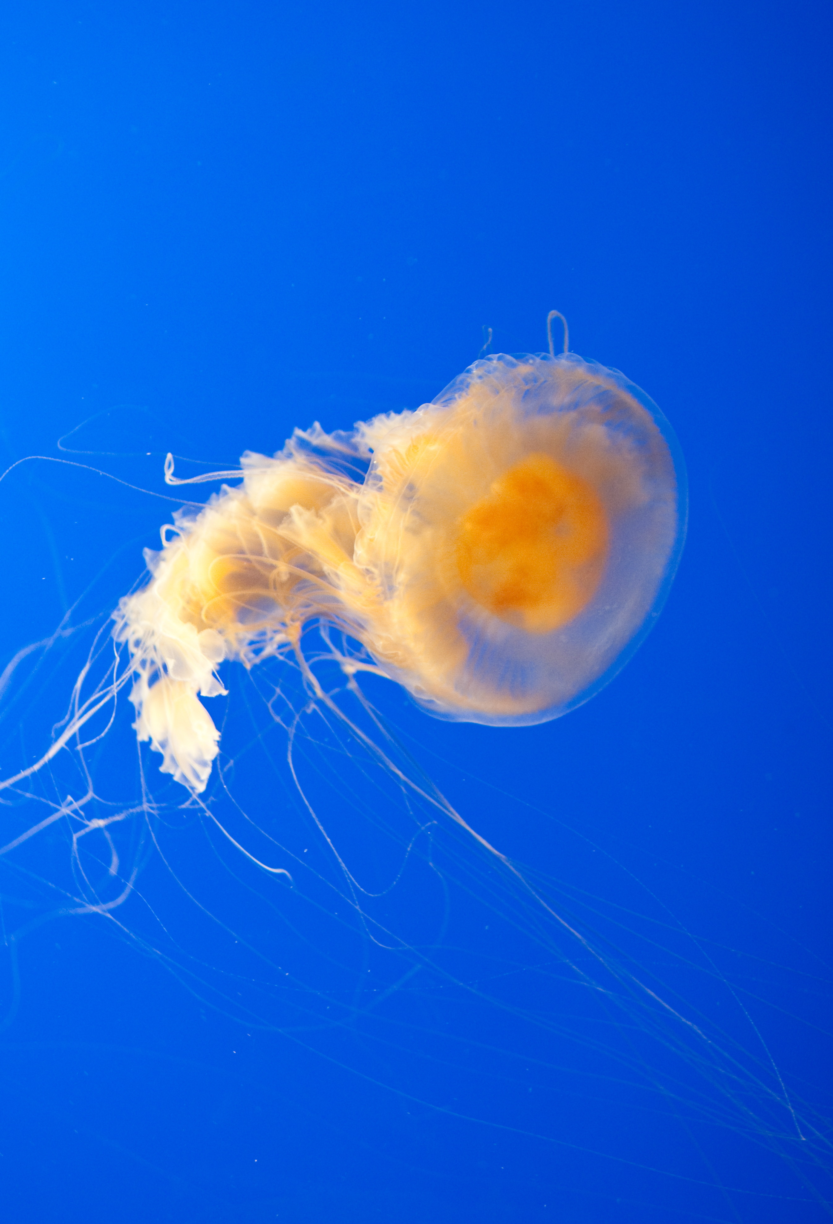 The Egg Yolk Jelly (Phacellophora camtschatica) - at Monterey Bay Aquarium.